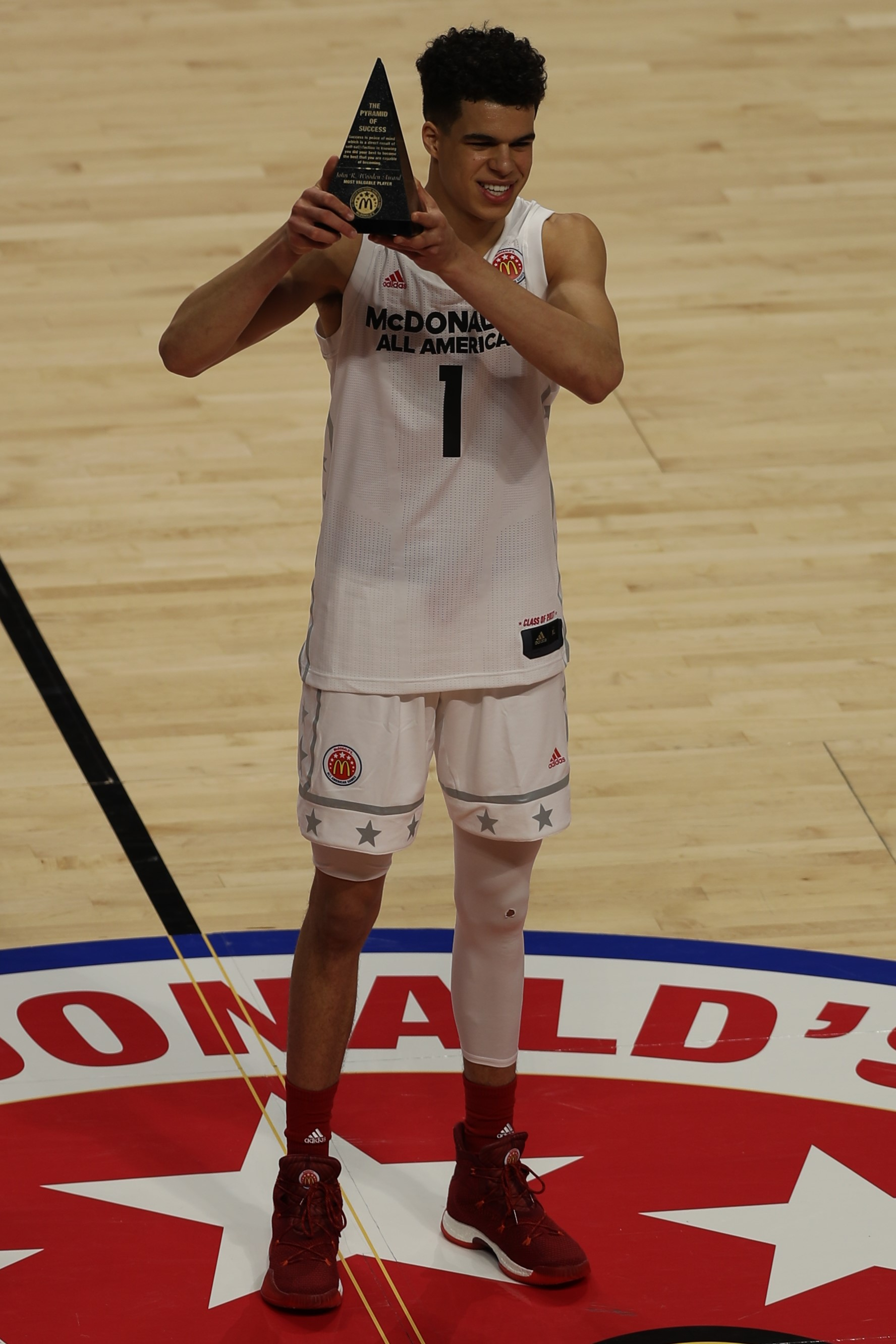 Michael Porter Jr. receiving the w:2017 McDonald's All-American Boys Game MVP award at the United Center